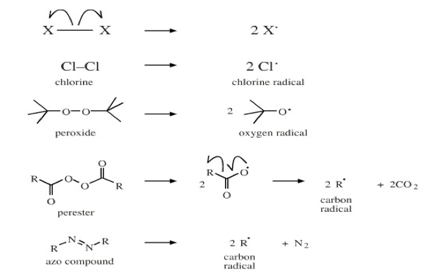 fadsfasfasfas